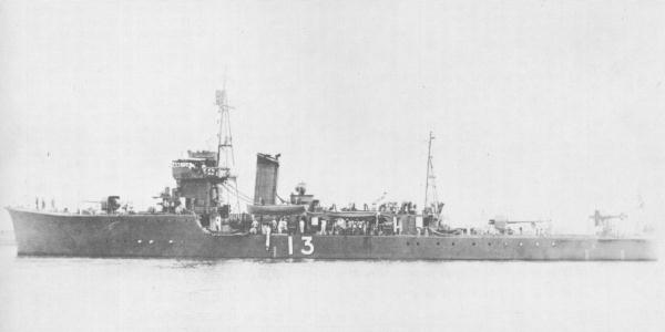 Japanese No.13 Minesweeper, completed Aug. 31, 1933.